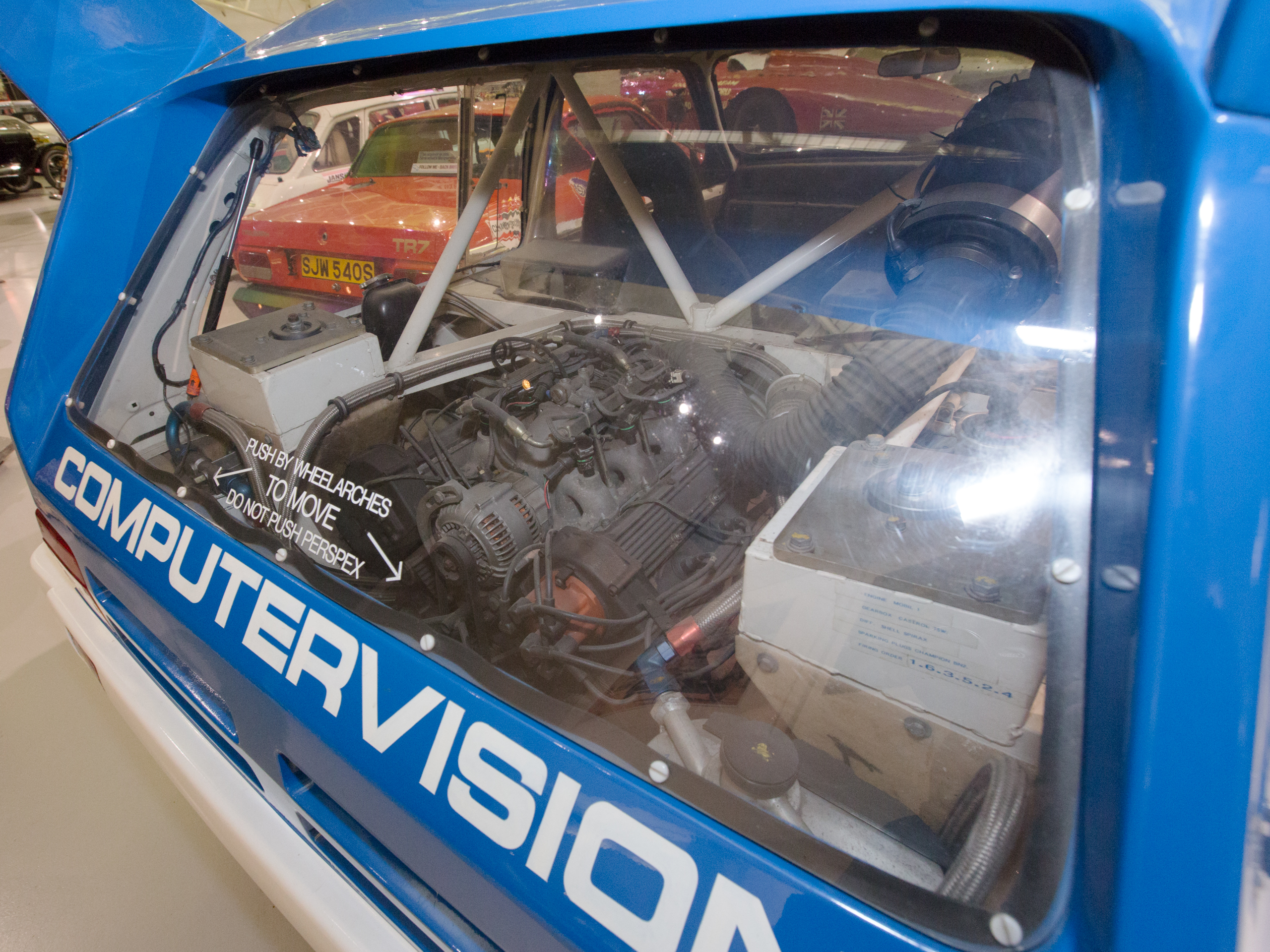 1985 MG Metro 6R4 Clubman